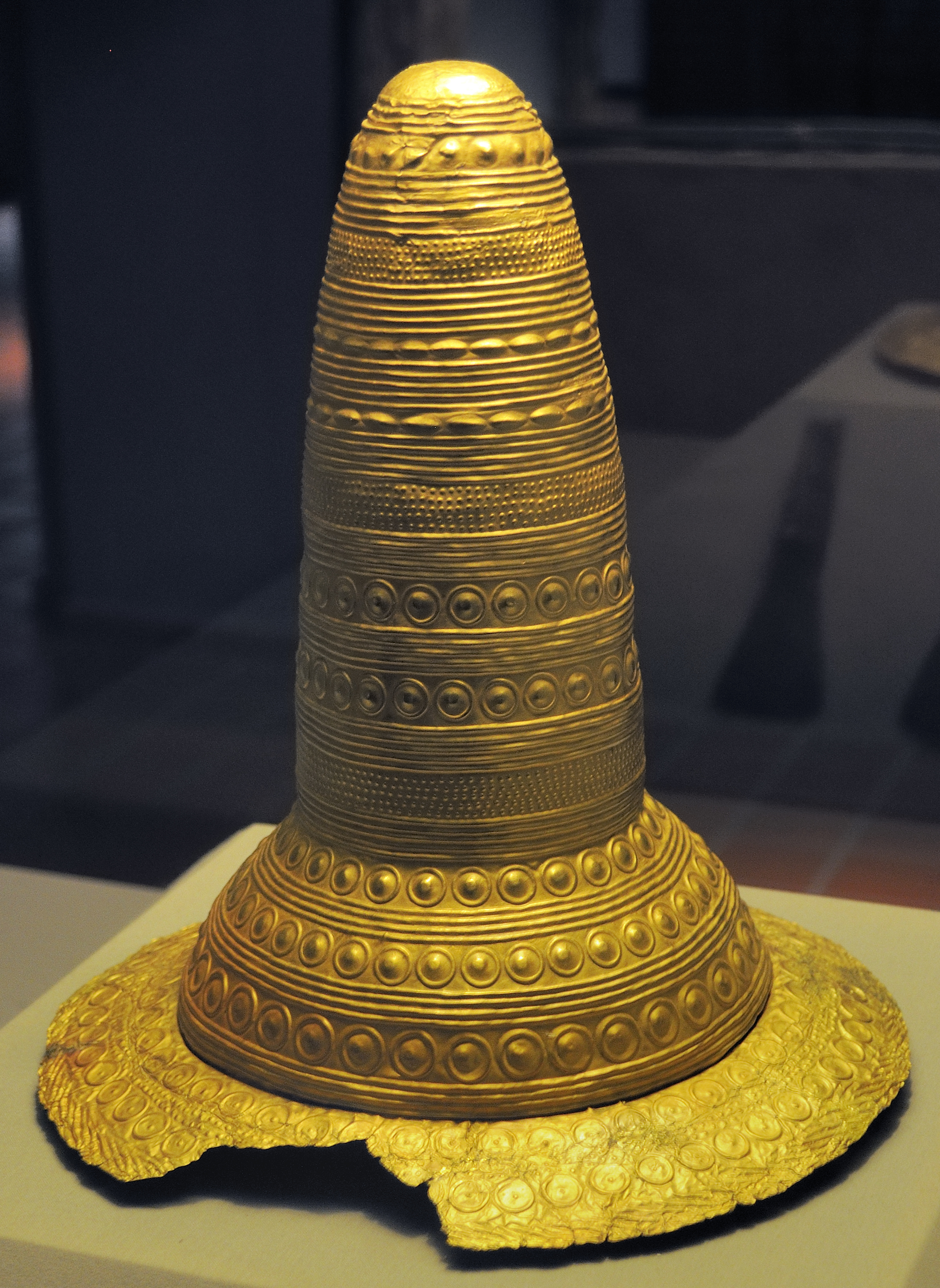 Picture taken in Speyer. Historisches Museum der Pfalz: Golden Hat of Schifferstadt.